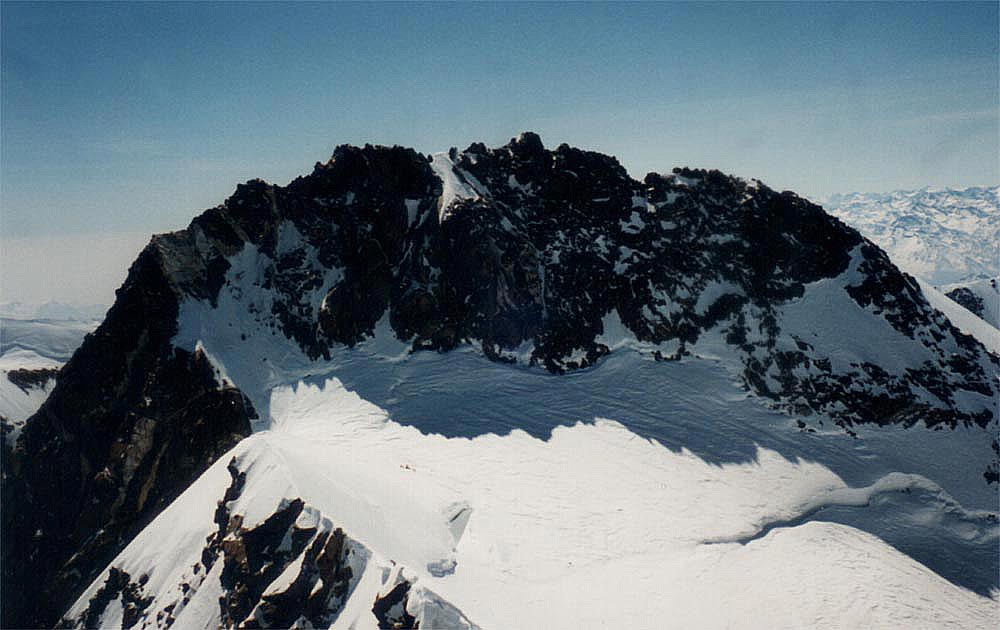 Dufourspitze (Monte Rosa, 4634m) as seen from Nordend (4609m); swiss-italien border, alps